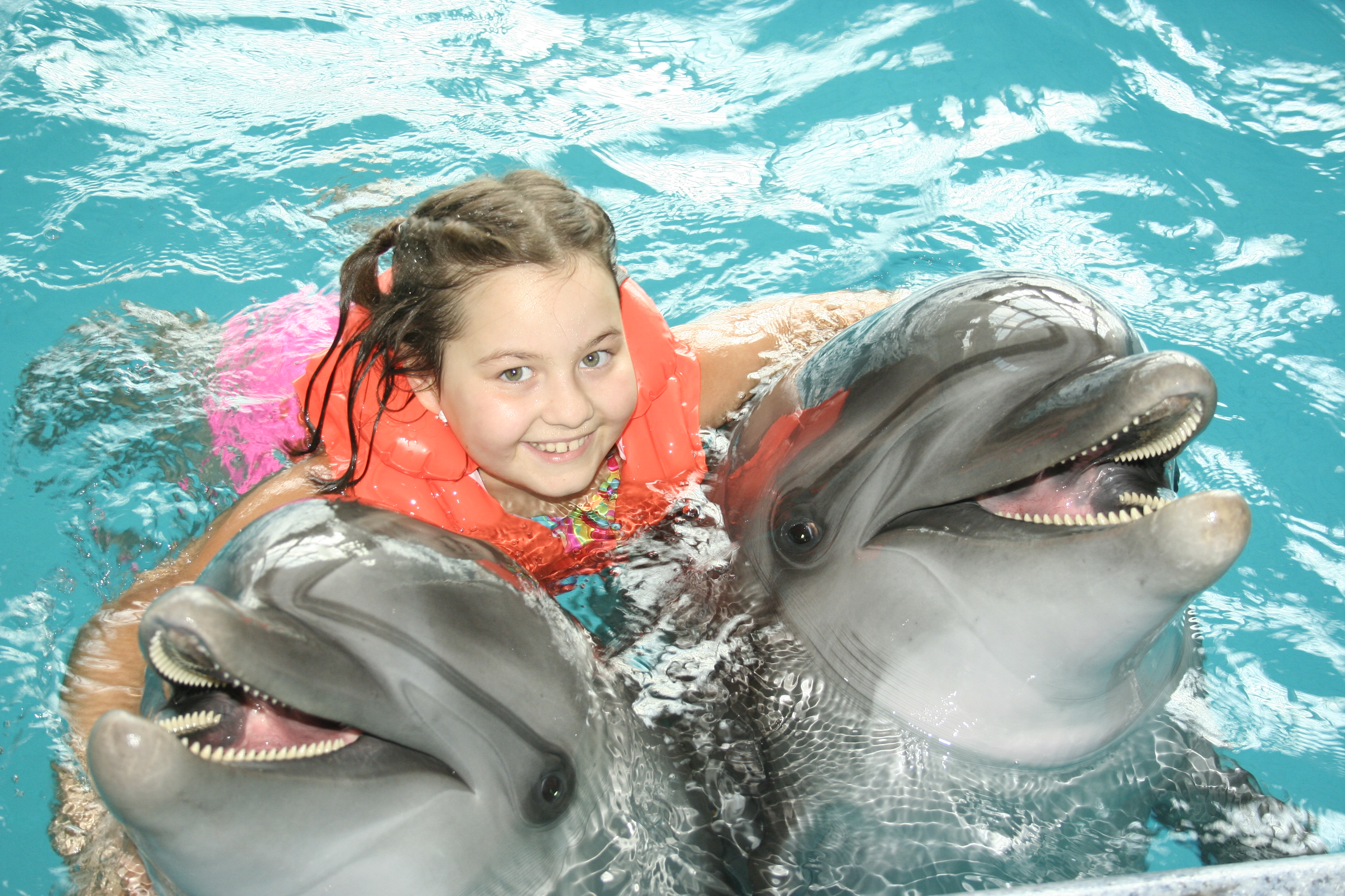 Swimming with dolphins